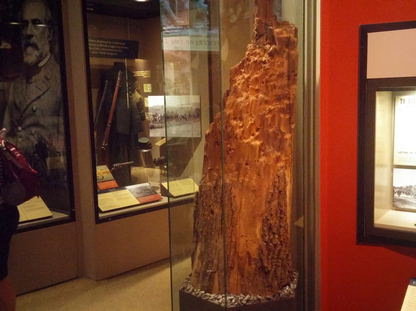 On the morning of May 12, 1864, 1,200 entrenched Confederates, the front line of General Robert E. Lee’s Army of Northern Virginia, awaited the assault of 5,000 Union troops from the 2nd Corps of the Army of the Potomac. The same fury of rifle bullets that cut down 2,000 combatants tore away all twenty-two inches of this tree's trunk. Several of the conical minie balls are still deeply embedded in the wood. Originally presented to the U.S. Army's Ordnance Museum by Brevet Major General Nelson A. Miles, the stump was transferred to the Smithsonian in 1888.